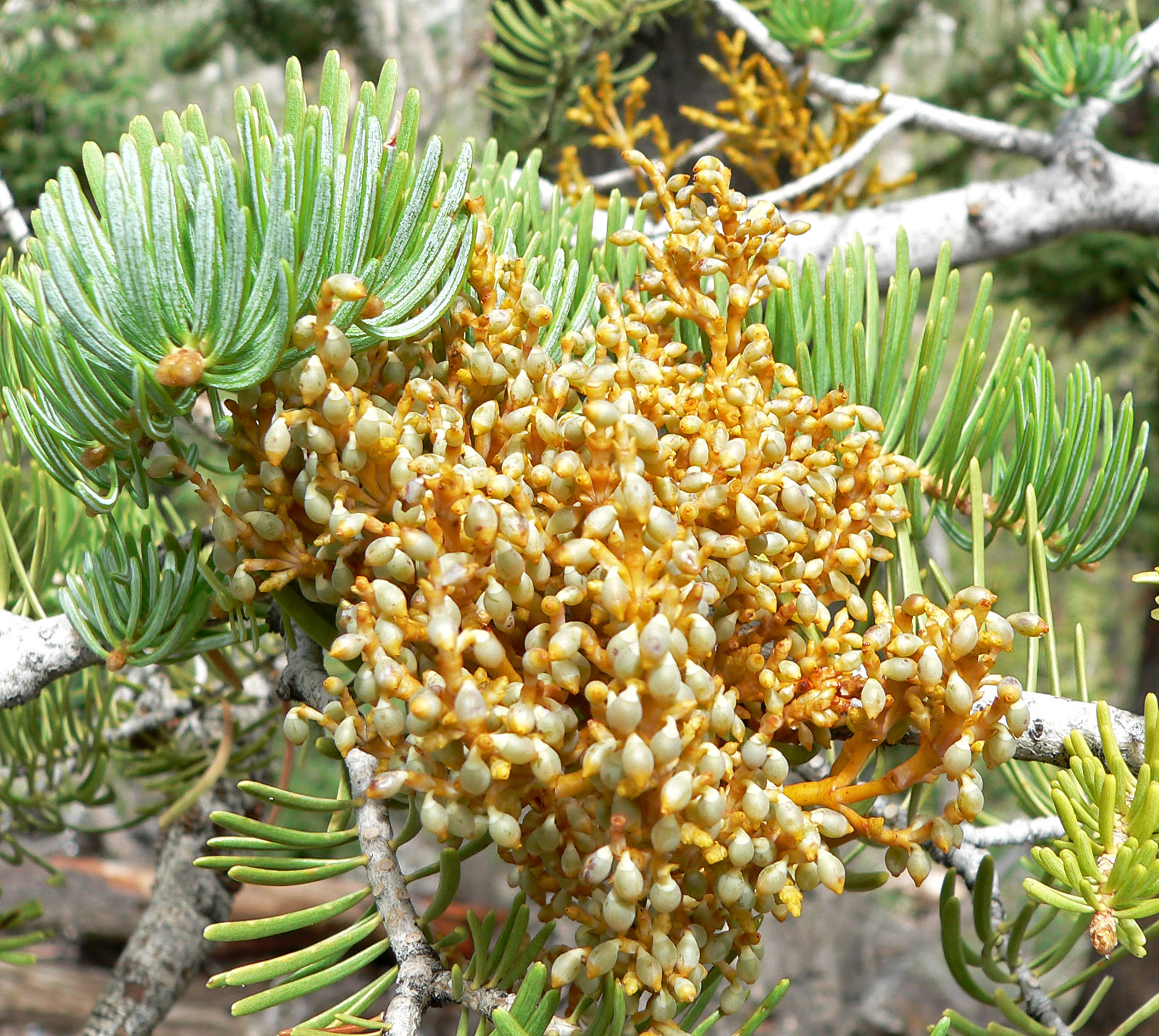 Arceuthobium abietinum growing on Abies concolor in Lee Canyon, Spring Mountains, southern Nevada